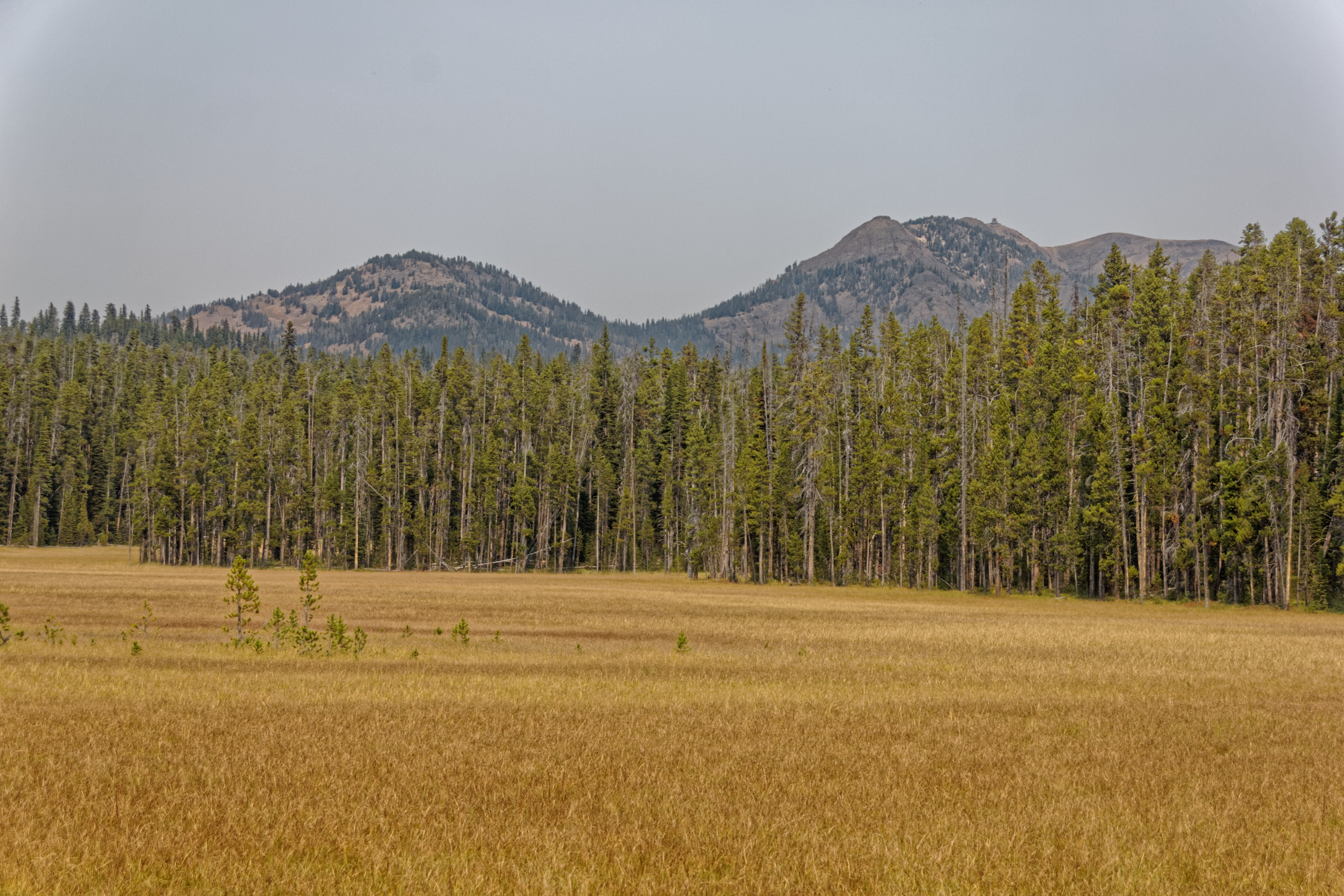 Seven Mile Hole Trail on northern rim of Yellowstone Canyon, view towards Hedges peak (left) and Dunraven peak (right)